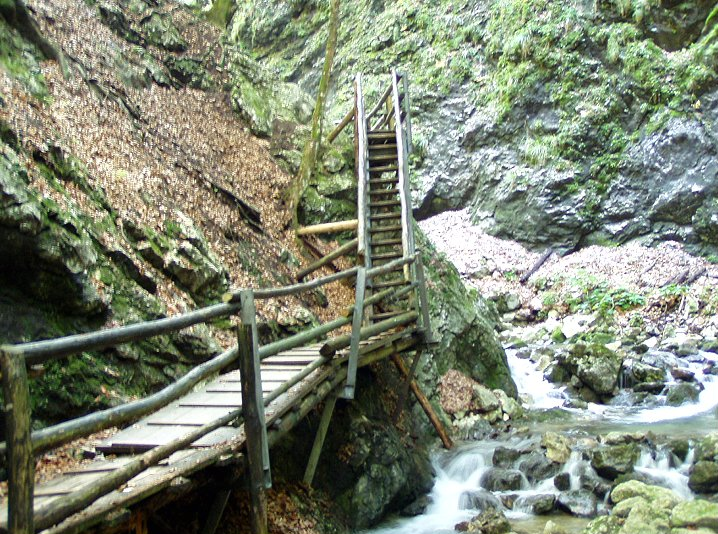 Dr. Vogelgesang-Klamm This media shows the natural monument in Upper Austria with the ID nd181.